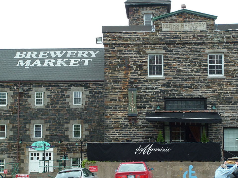 Alexander Keith's Brewery in Halifax (Nova Scotia)